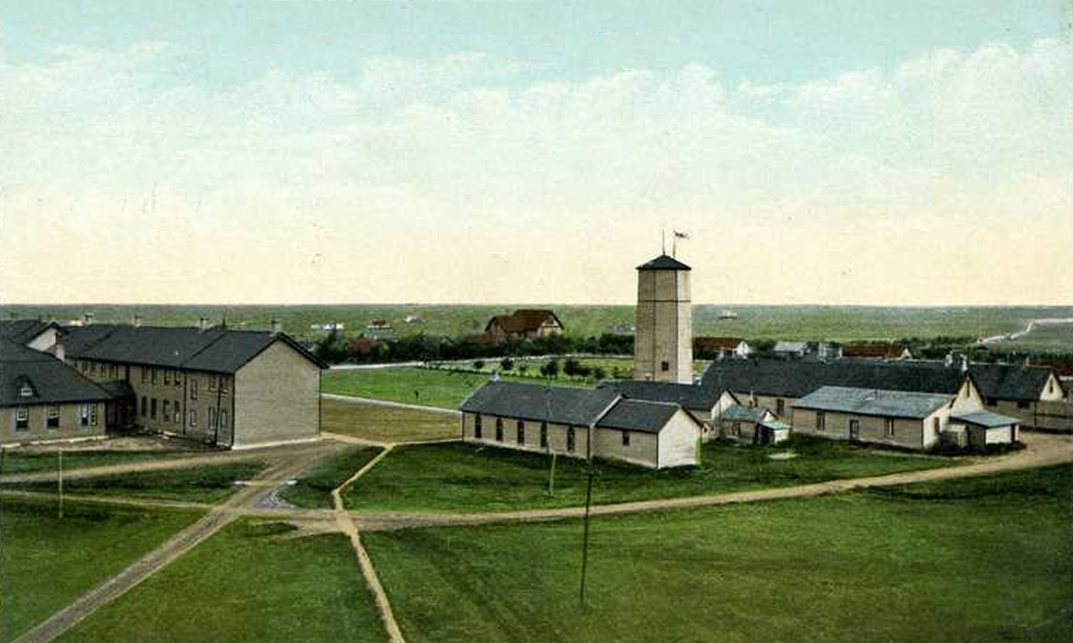 Postcard of Royal Northwest Mounted Police Headquarters in Regina, Saskatchewan, c. 1905